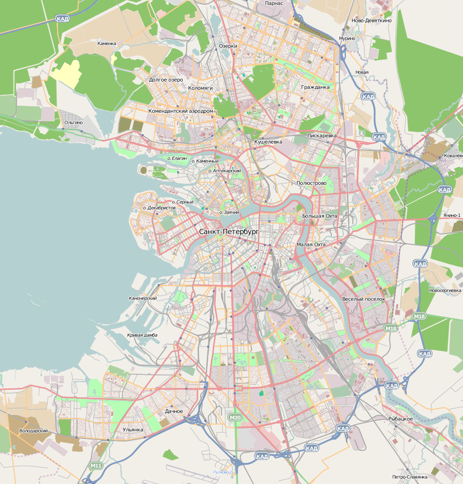 This map may be incomplete, and may contain errors. Don't rely solely on it for navigation.